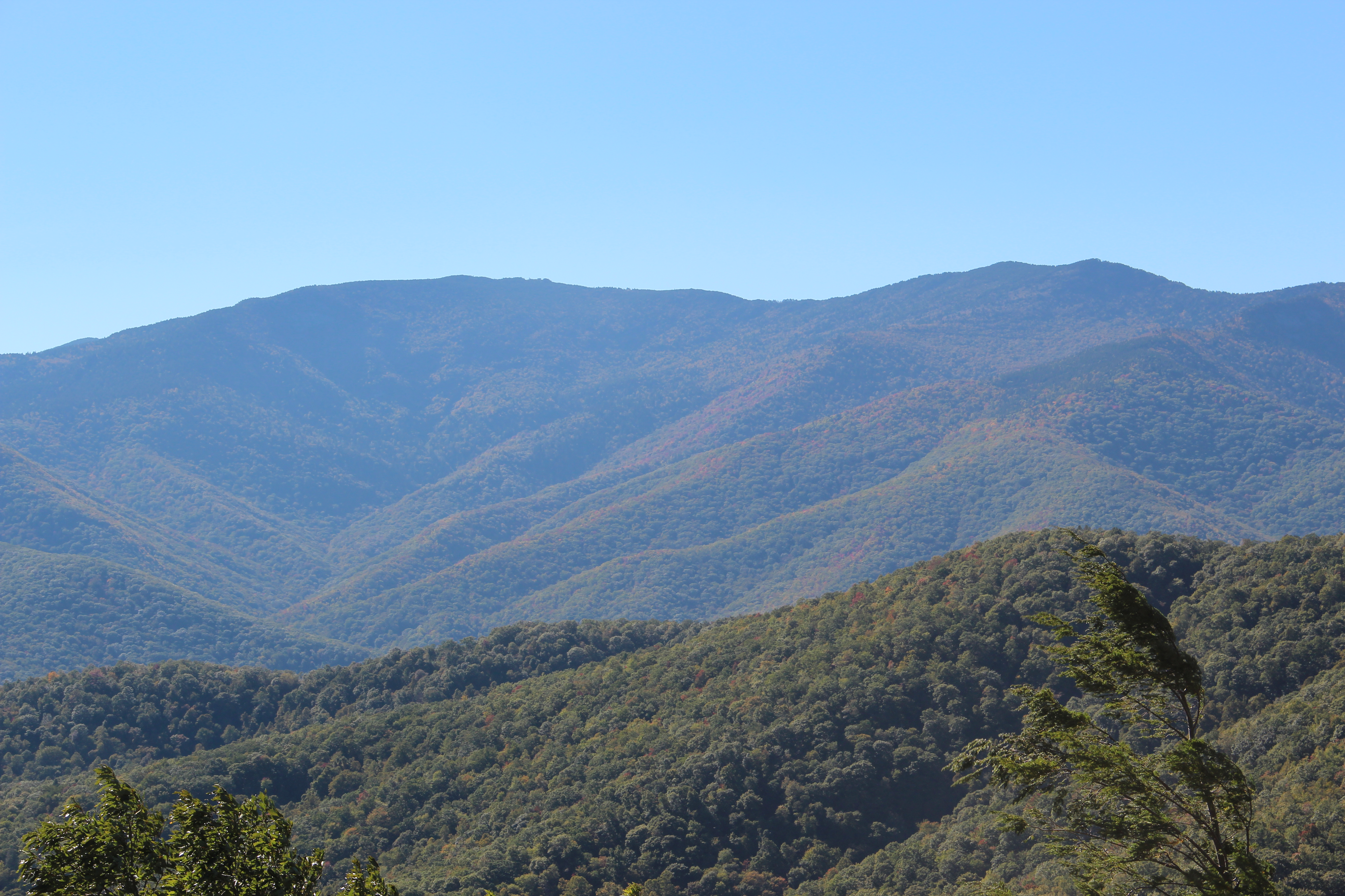 Mount Mitchell (left) and Mount Craig (right) viewed from the Black Mountains Overlook